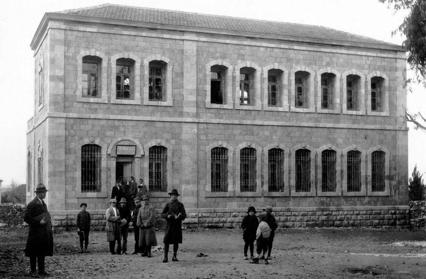 he Bnei Brit office building on HaHabashim Street in Jerusalem.